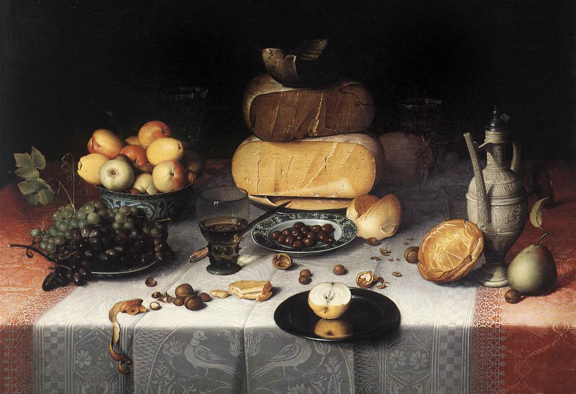 A table with a white linnen and pink silk damask is laid with a pewter dish containing three cheeses, before which a Chinese dish with nuts or olives and another pewter dish with half an apple. To the right stands a Siegburg ware jug, to the left a Chinese bowl with apples and a pewter plate with white and blue grapes. Also a rummer, some glasses, a bread roll, a knife and a pear.